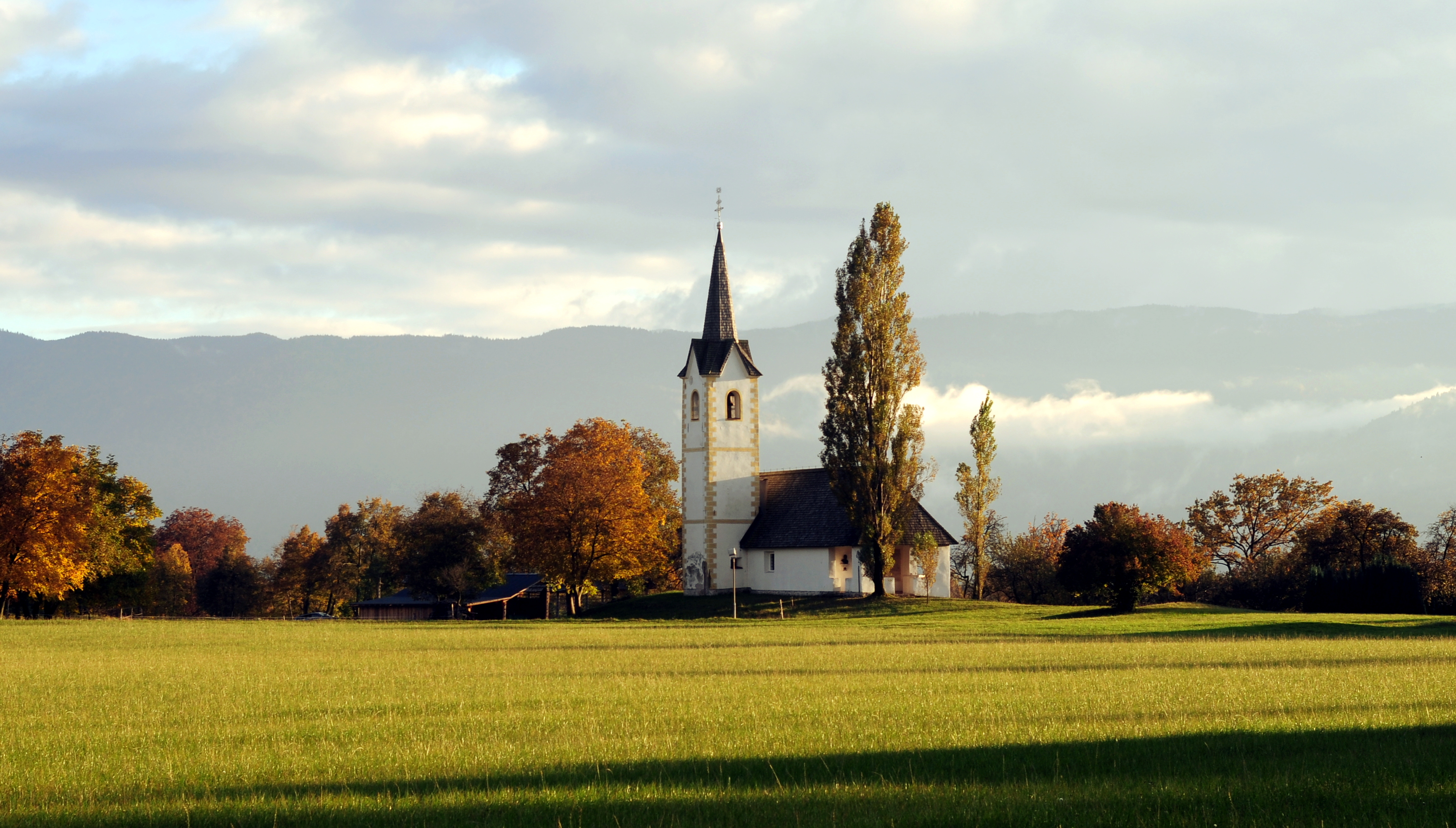 St. Marks' Church in Vrba na Gorenjskem.